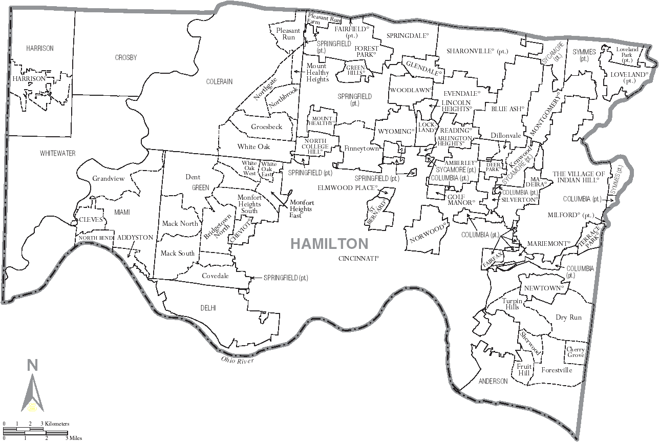 Map of Hamilton County, Ohio, United States with township and municipal boundaries